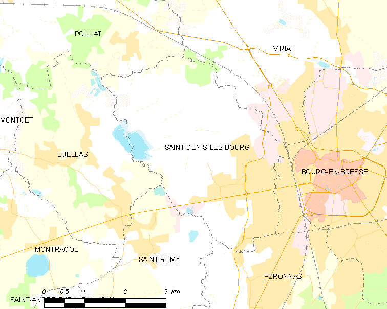 Map of French commune: Saint-Denis-lès-Bourg Map commune FR insee code 01344.png